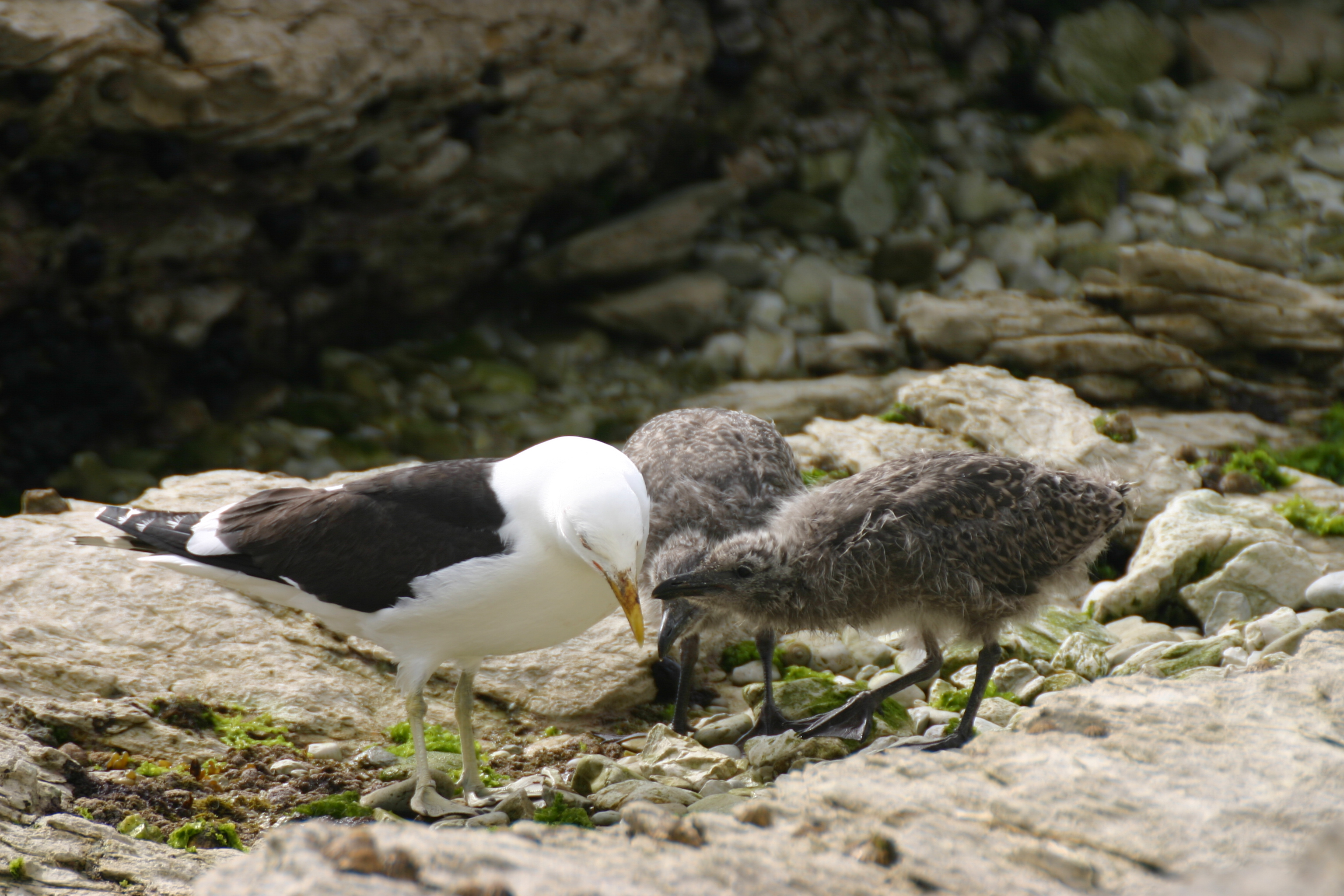 Larus dominicanus, Black Backed Gull, kelp Gull, Karoro in New Zealand. By Brian Gratwicke